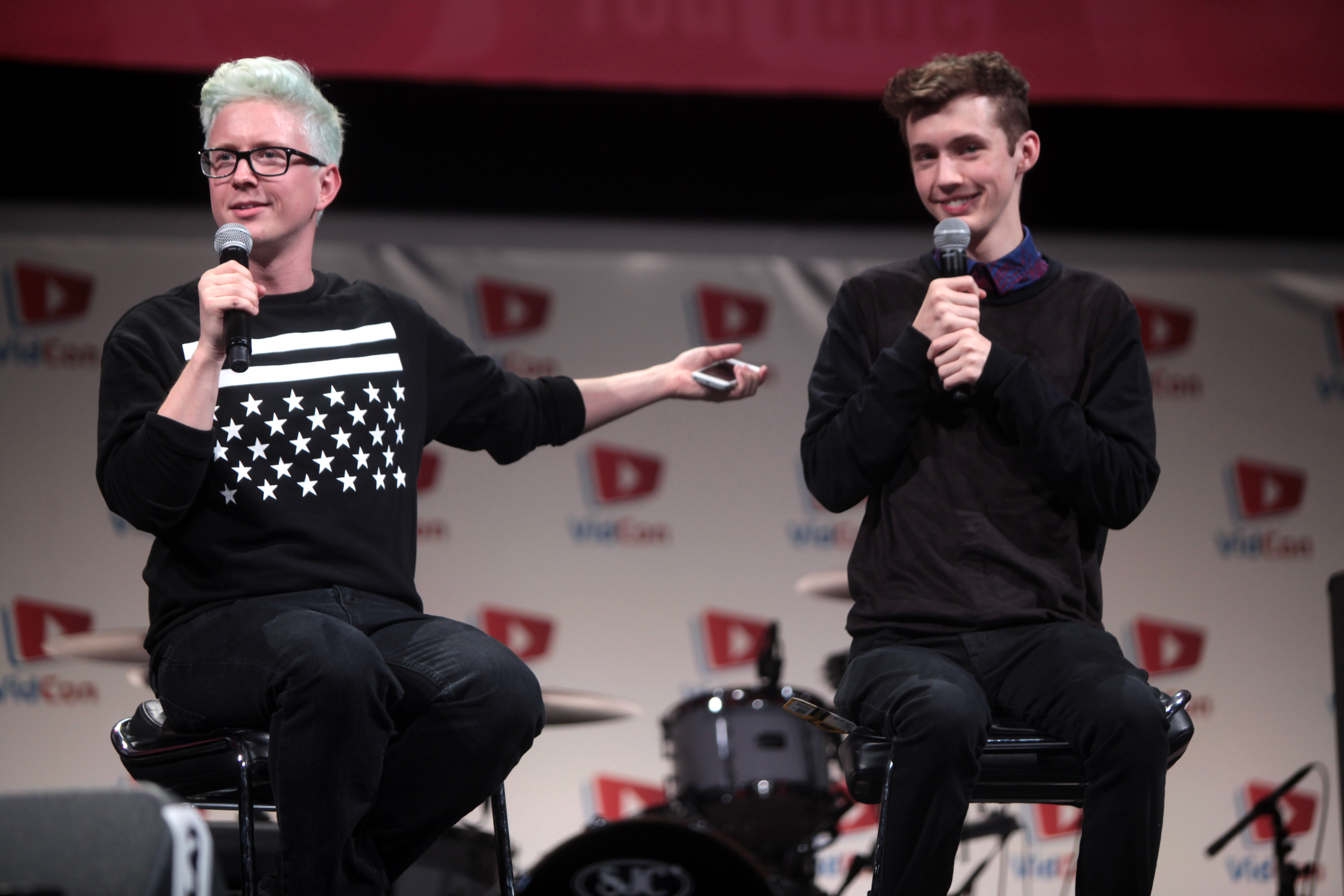 Tyler Oakley and Troye Sivan speaking at the 2014 VidCon at the Anaheim Convention Center in Anaheim, California.